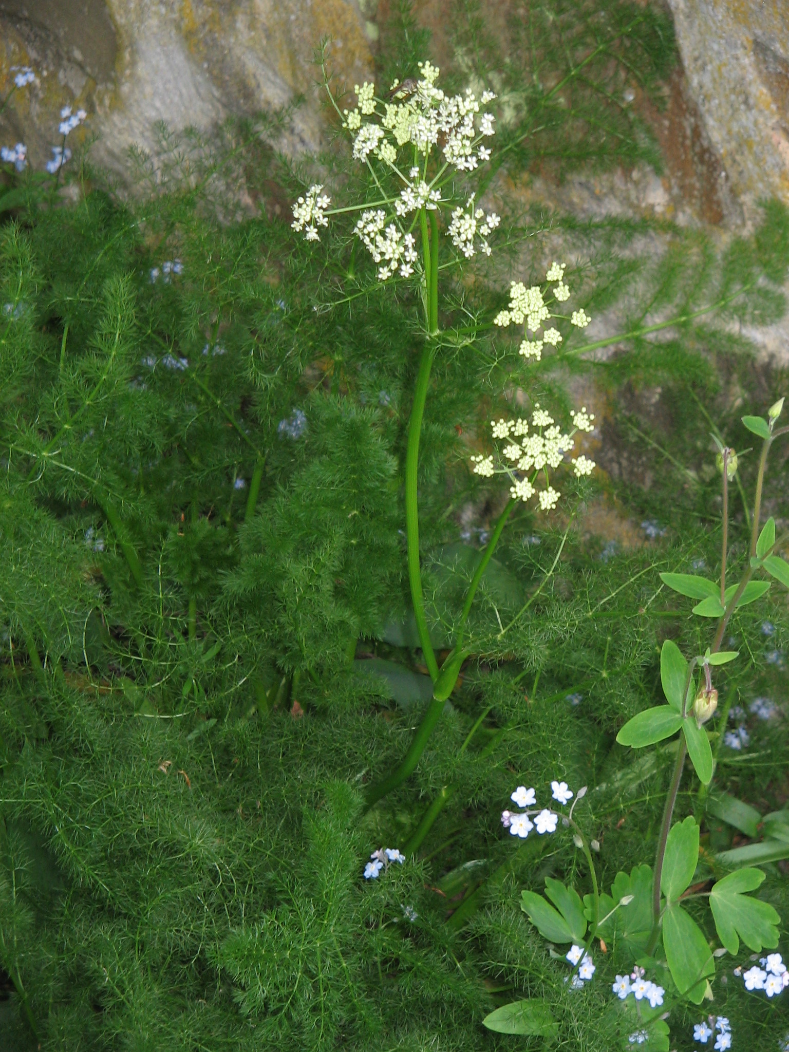 Meum athamanticum